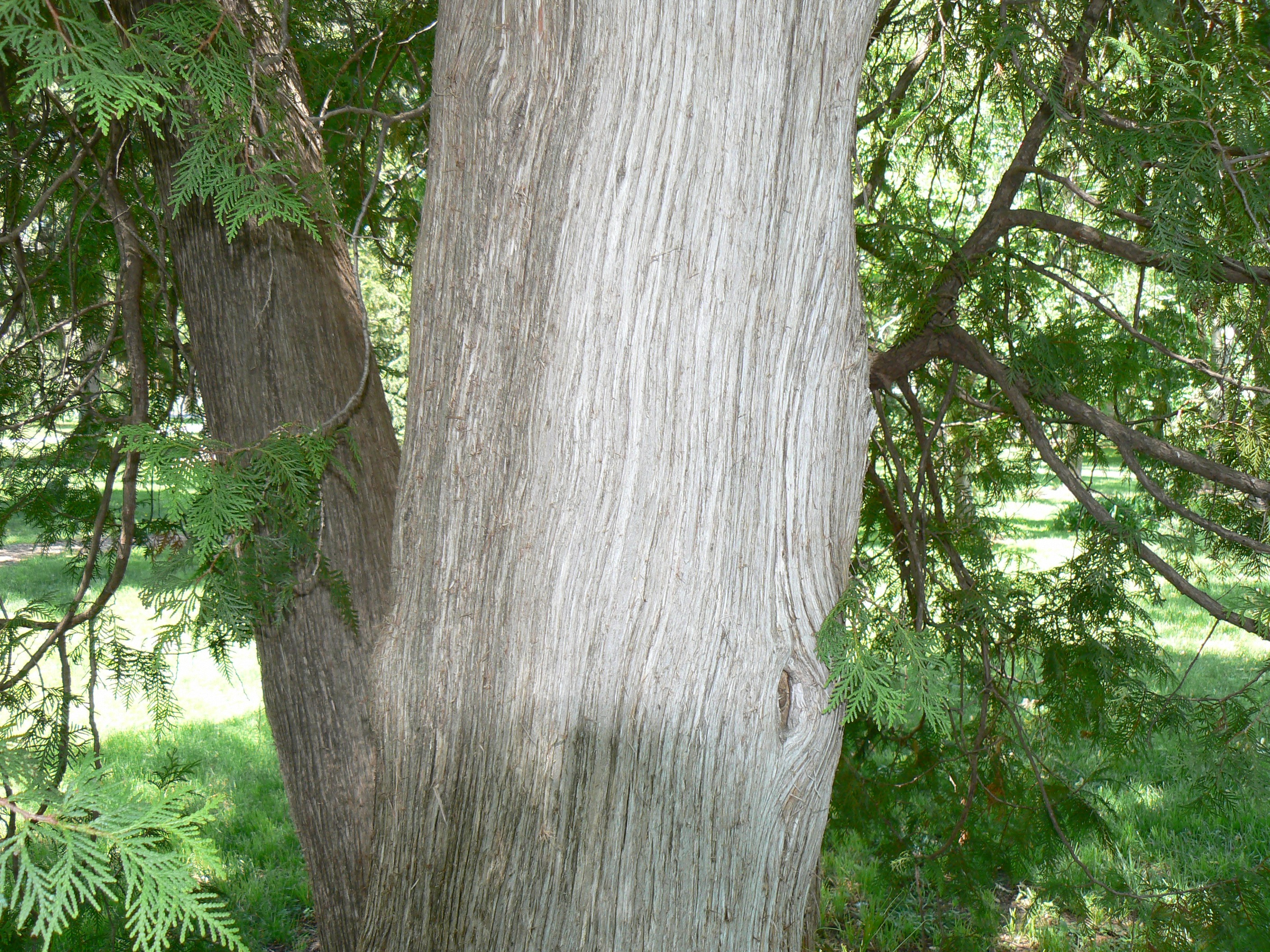 Eastern Arborvitae (Thuja occidentalis) bark and foliage